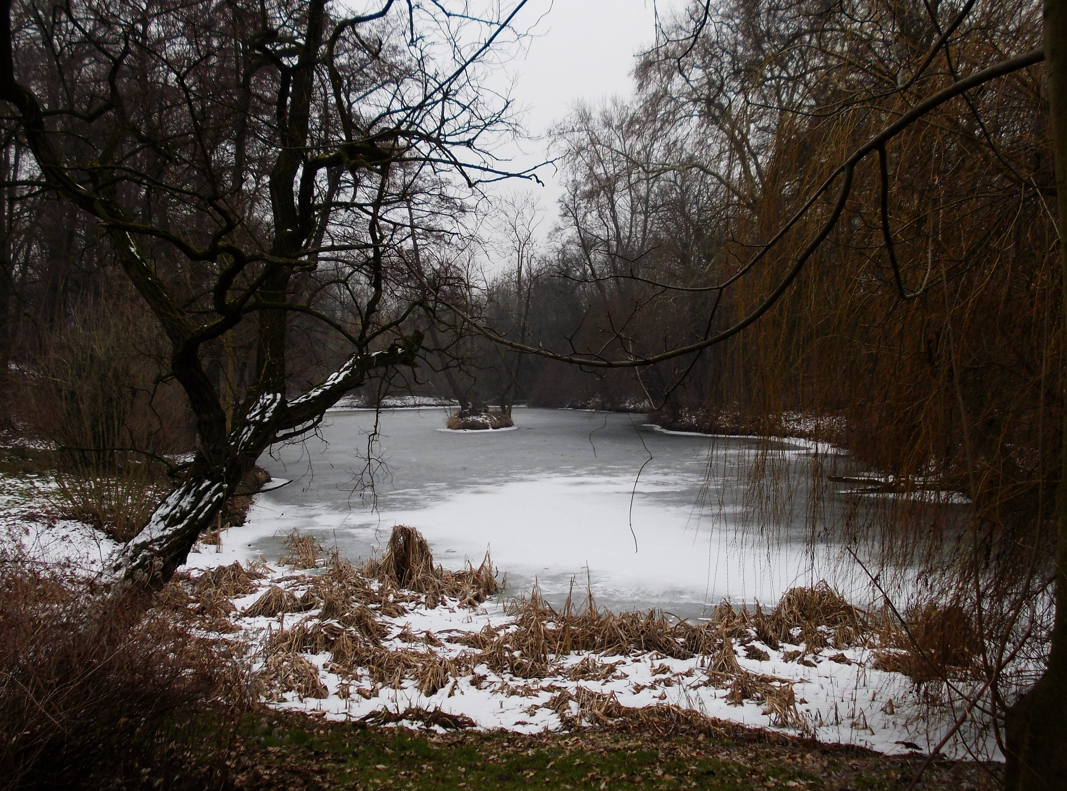 Pond at the Upper Estate in Zschortau (Rackwitz, Nordsachsen district, Saxony)